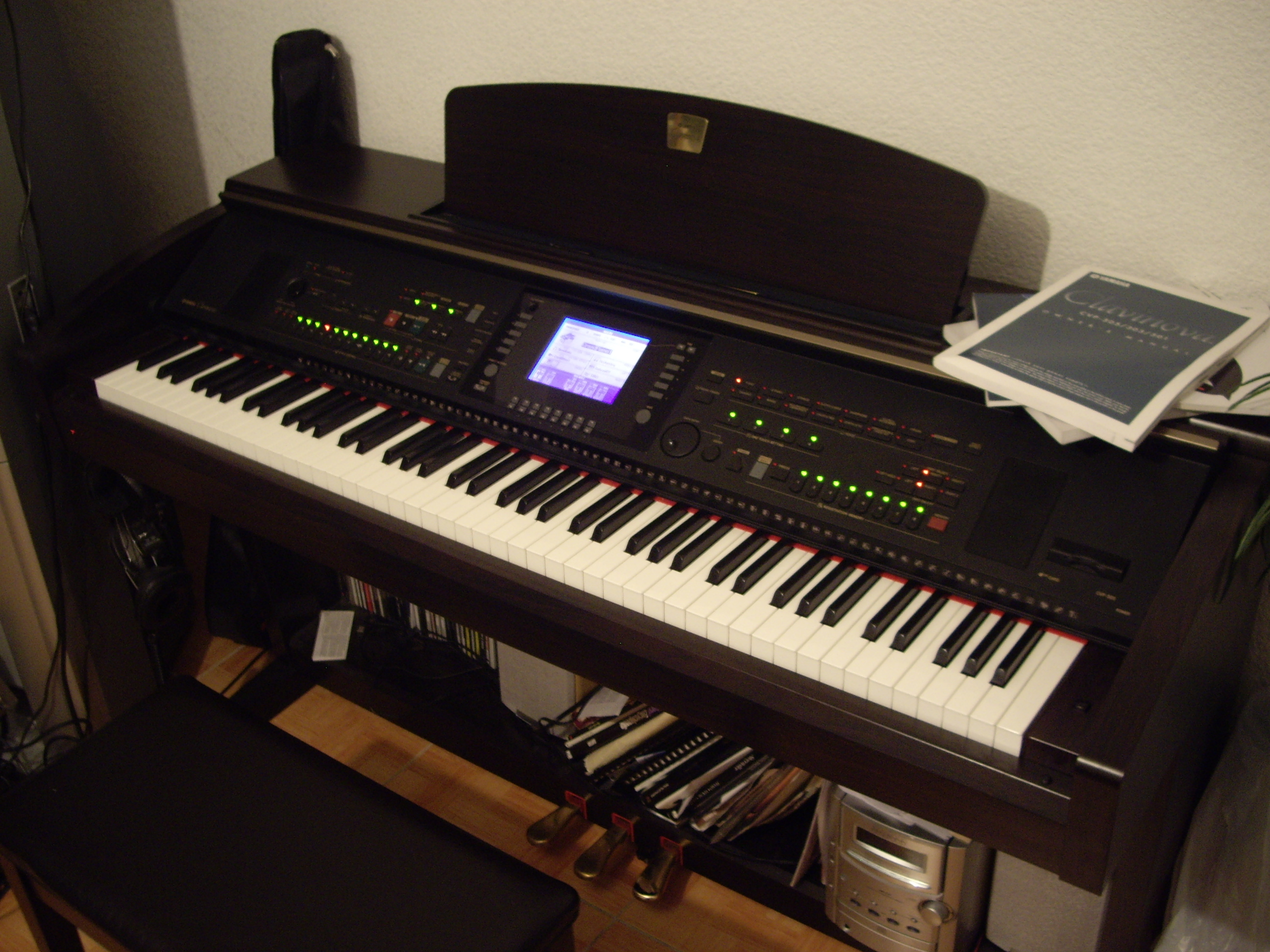 Yamaha Clavinova CVP-303 with sheet books at the top.